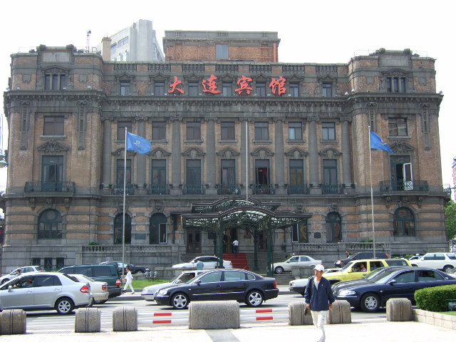 Dalian Hotel (Former Yamato Hotel Dairen)